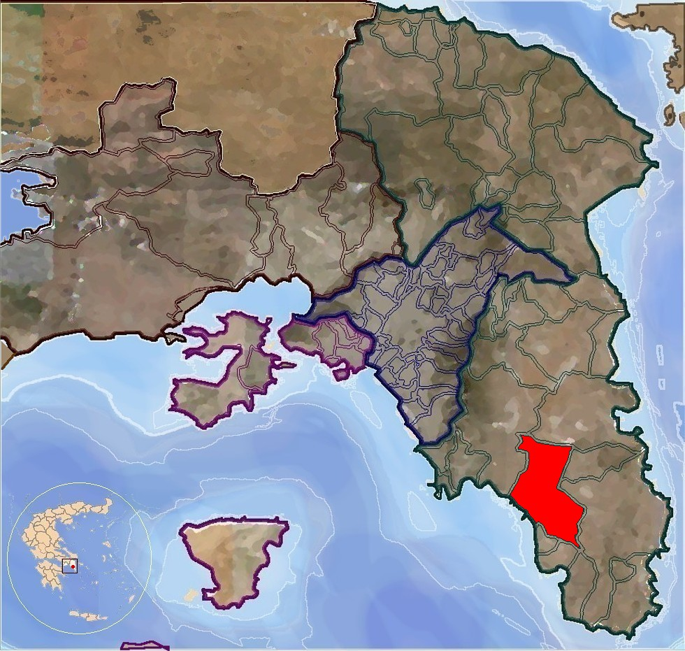 map